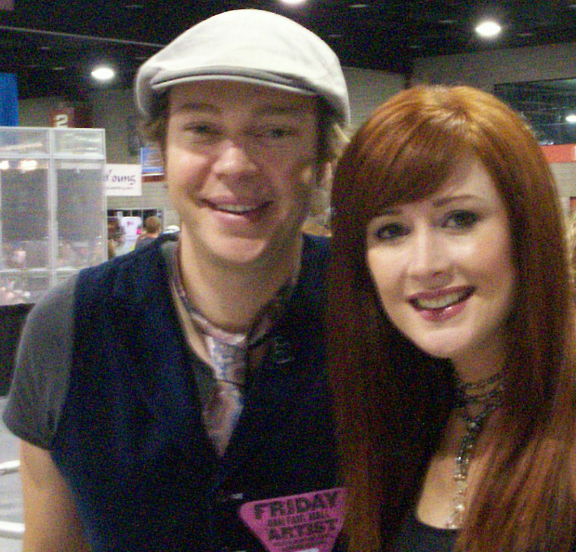 O'Shea at CMA Music Fest, 2010.